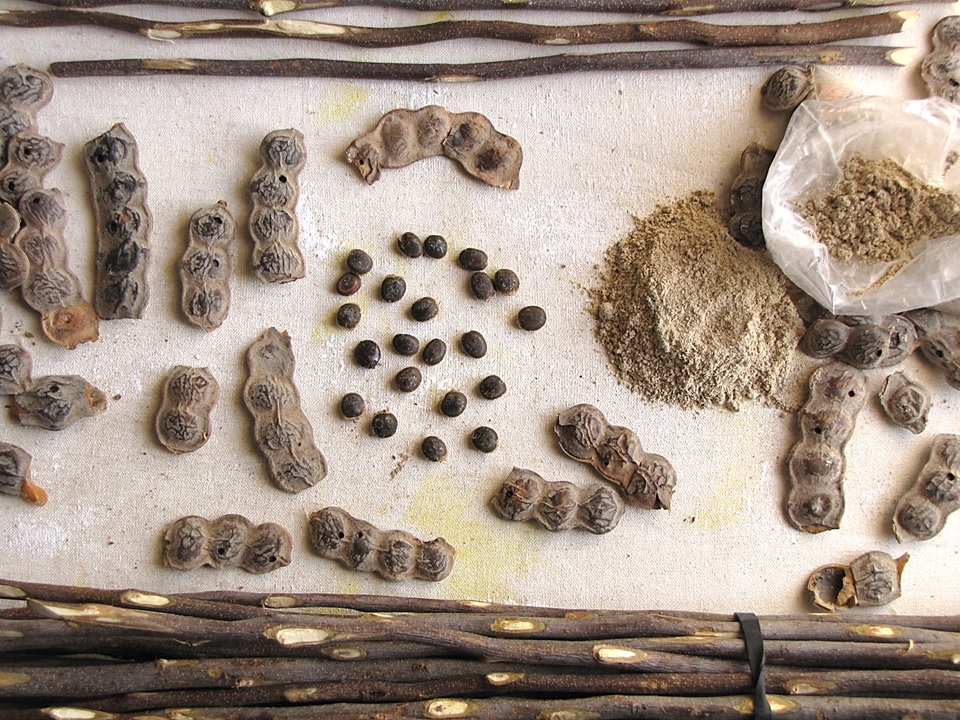 Also called 'nep-nep' or 'neb-neb' in Wolof, in Senegal, a useful tree across the African Sahel. Here shown the seeds, also sections of the dry seed pods which are ground into powder (sold as shown in the sachet) to be used rubbed against the gums for helping alleviate teeth and gum problems. Twigs as shown are sold in a bundle as 'African toothbrushes' - one of several species of tree twigs used for that purpose. (Names vary between languages.)